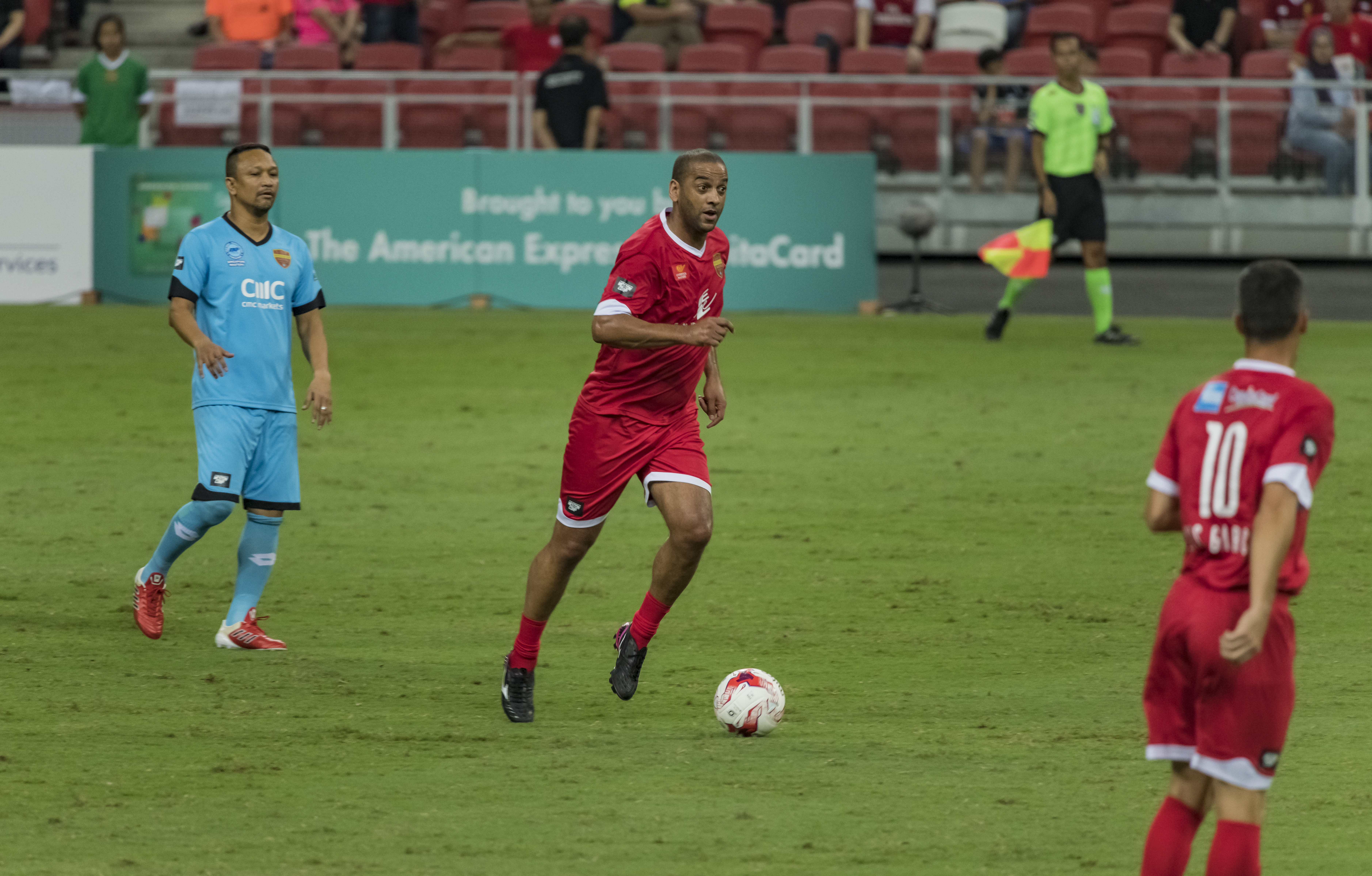 phil babb liverpool masters singapore national stadium 2017